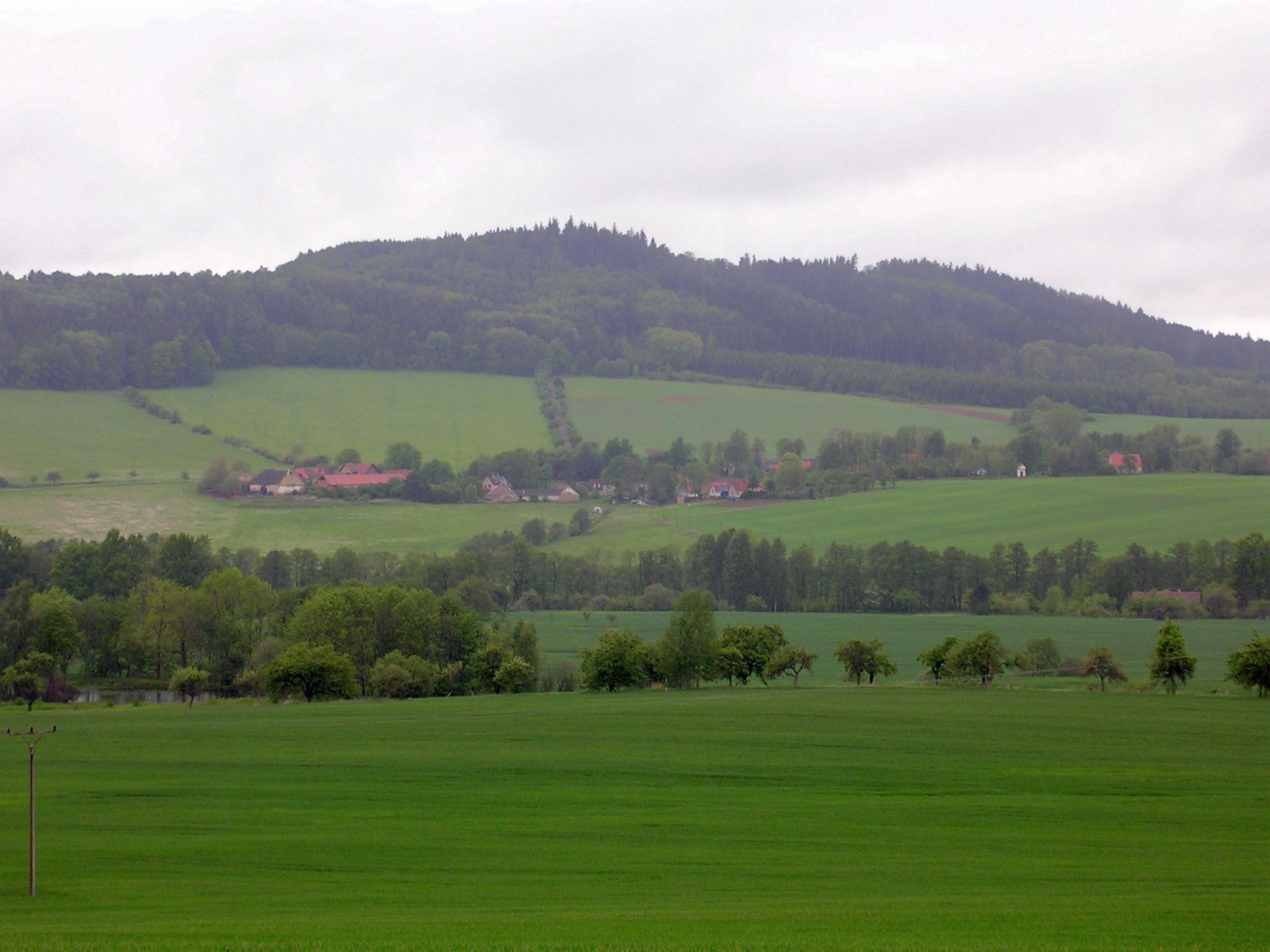 Jankov-Otradovice, Benešov District, Central Bohemian Region, the Czech Republic.